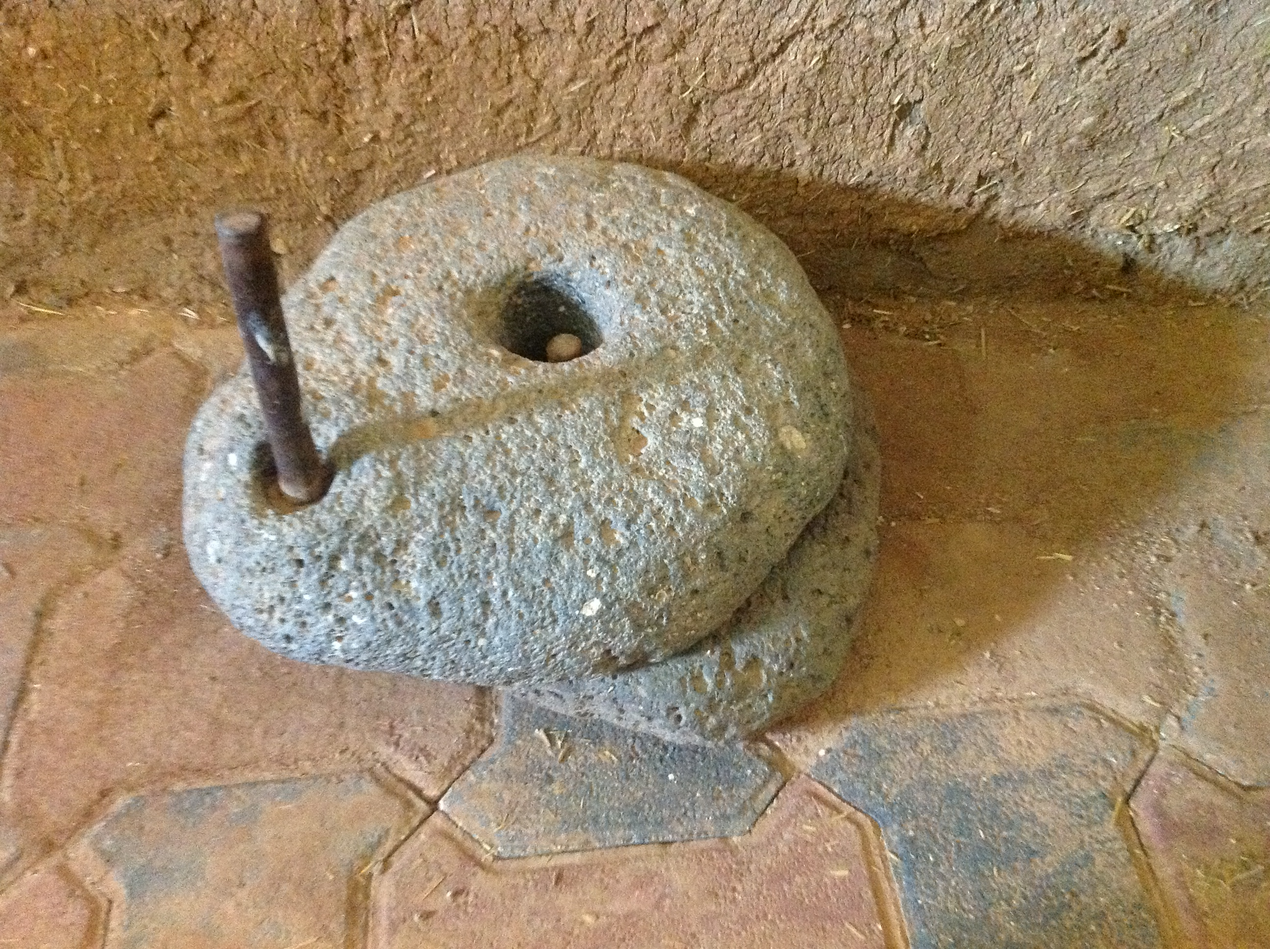 Millstone with a wooden handle